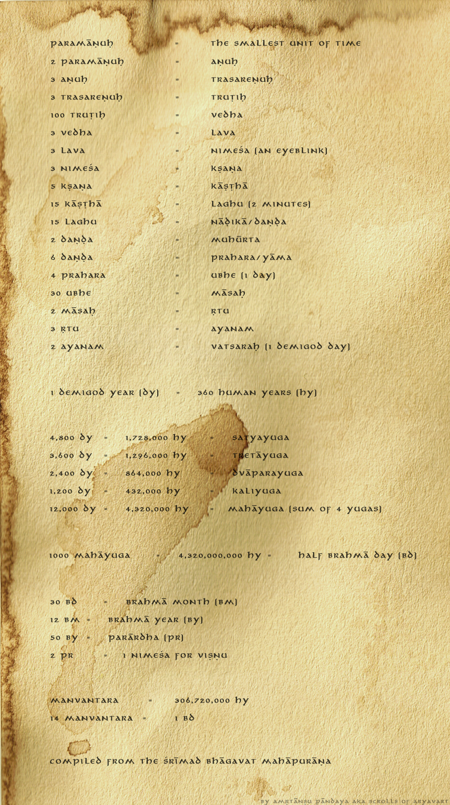 time divisions according to the Vedic civilisation